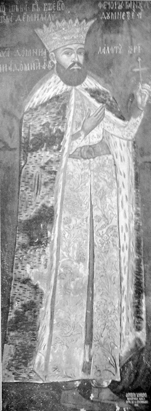 Painting of Wallachian voivode Radu Șerban at Horezu Monastery